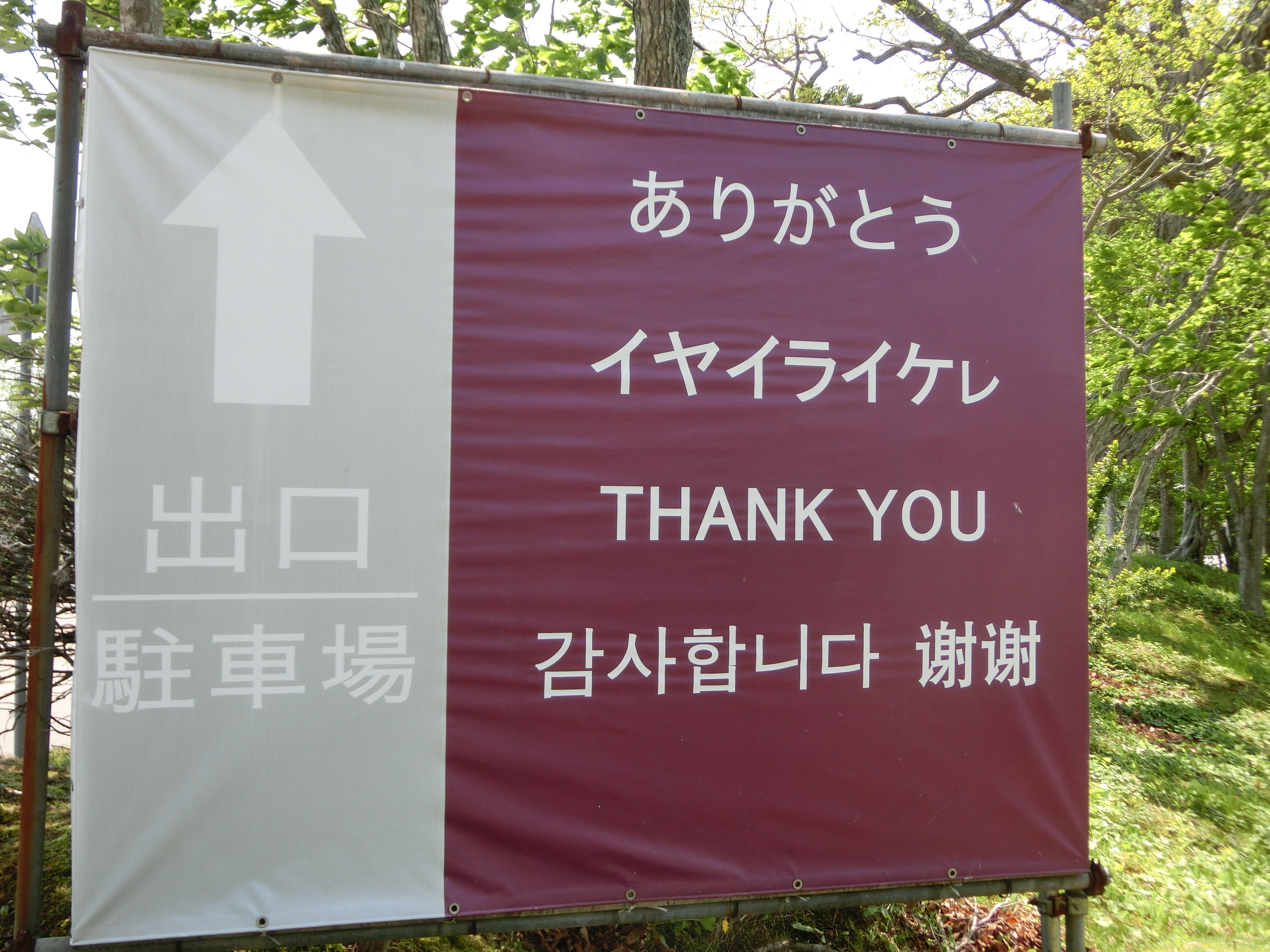 Multilingual(Japanese, Ainu, English, Korean and Chinese languages) sign at Ainu Museum (Shiraoi)